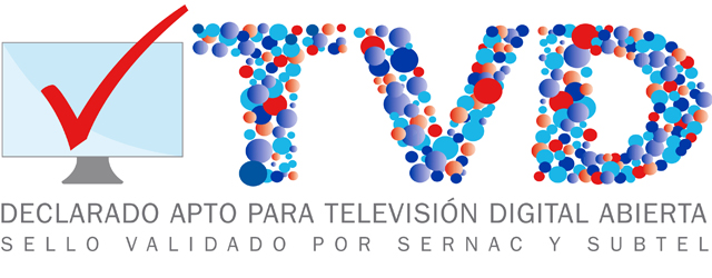 LOGO TELEVISION DIGITAL CHILE